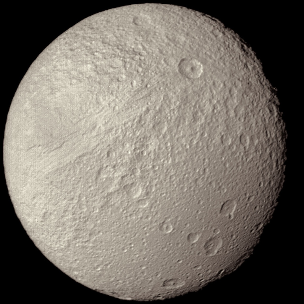 This view of Tethys was taken by Voyager 2 on August 26, 1981 from a range of 282,000 kilometers (175,000 miles). It is the best complete image acquired by the Voyager spacecraft. An enormous trench named Ithaca Chasma extends from the left side of the image to the upper center. The fissure is about 65 kilometers (40 miles) wide, several kilometers deep, and extends across three-fourths of Tethys' circumference. The image also shows two types of terrain one of which is heavily cratered (top) and the other more lightly cratered (bottom). Both of Saturn's moons Dione and Rhea exhibit similar boundaries. Light cratering indicates that the region was once internally active, causing partial resurfacing of older terrain.